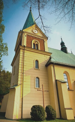 Church Narodzenia Św. Jana Chrzciciela w Lanckoronie